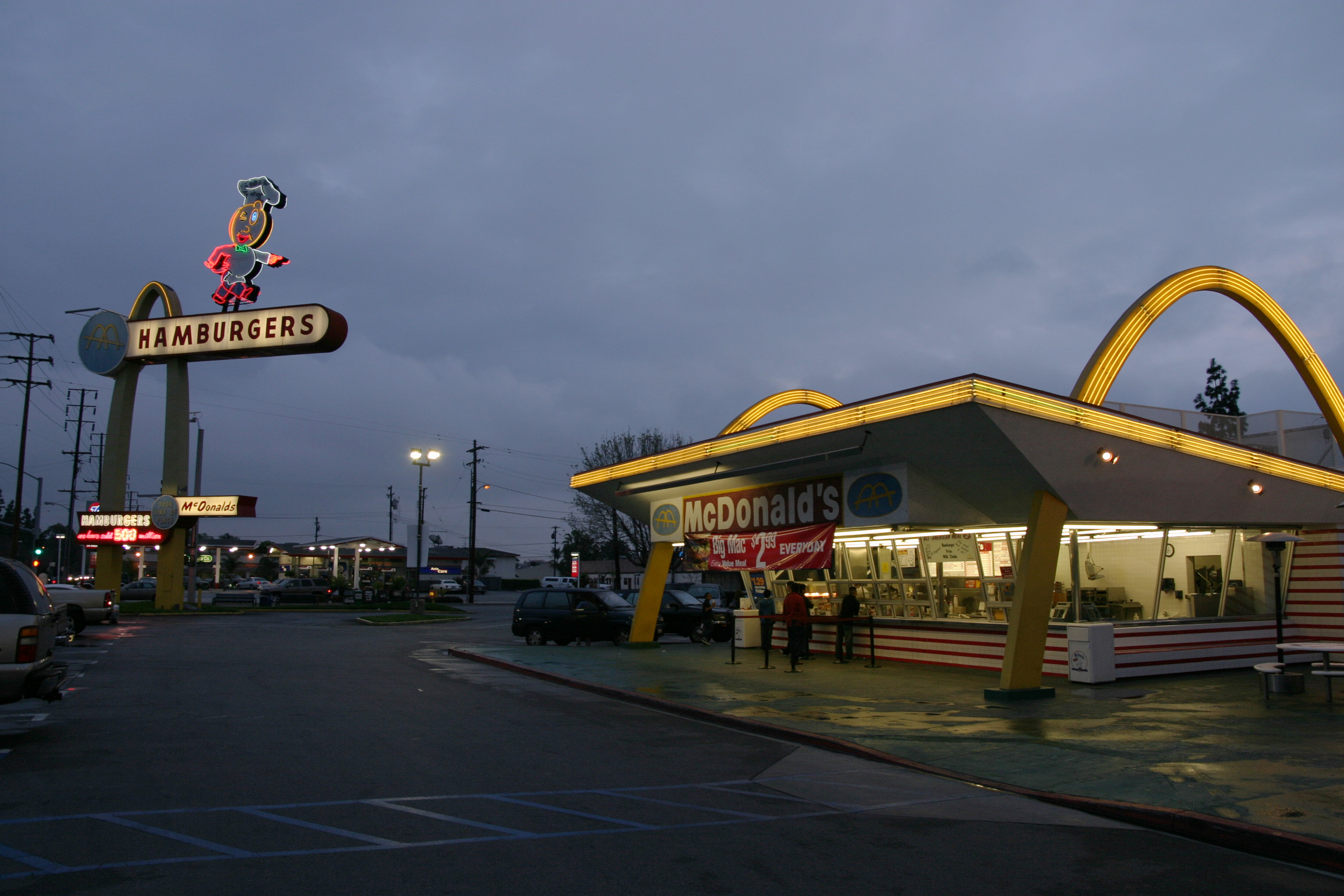 The oldest operating McDonald's restaurant was the third one built, opening in 1953. It's located at 10207 Lakewood Blvd. at Florence Ave. in Downey, California.